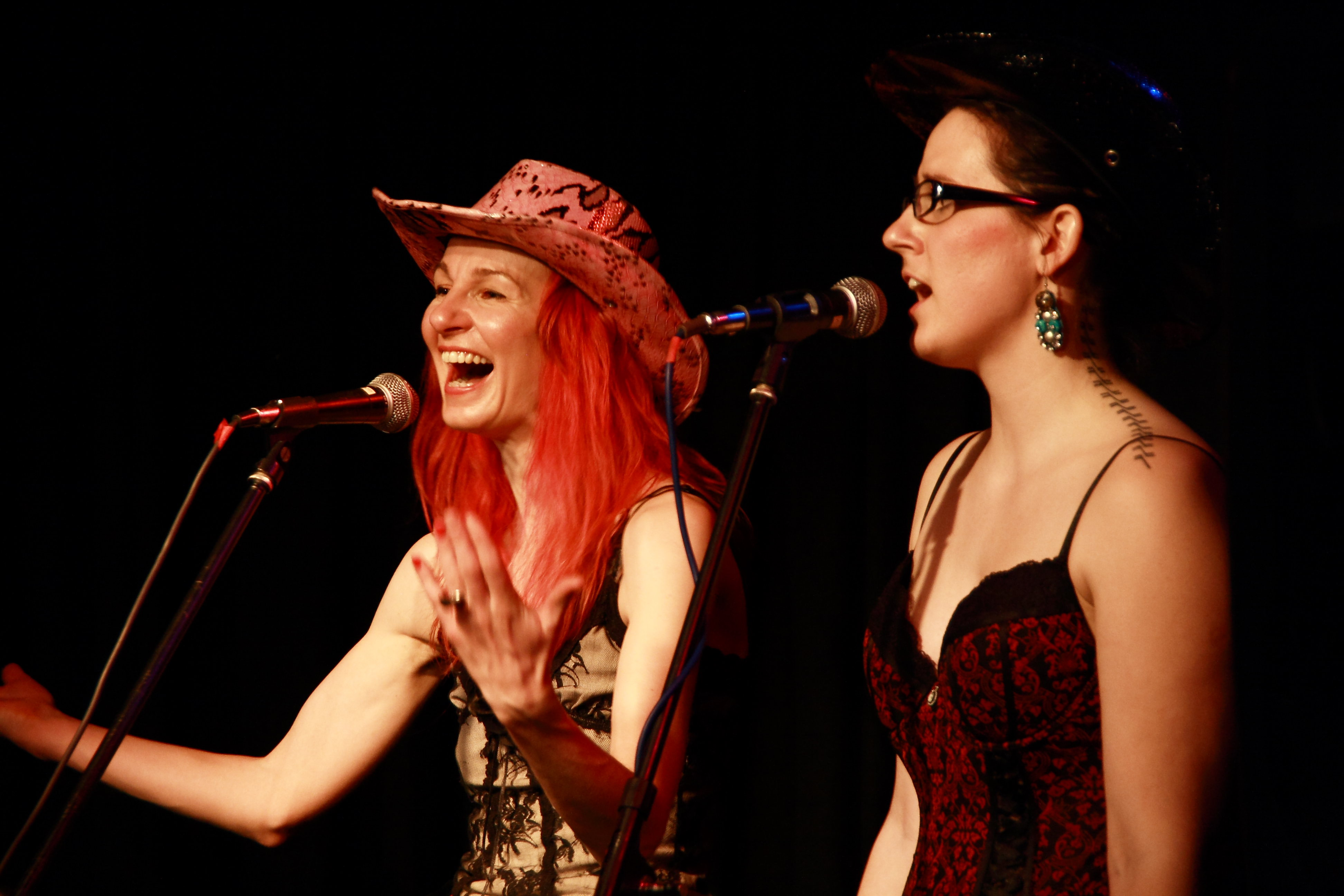 The Czech-American all-women´s a cappella group Kačkala 'performing at Club W71, Weikersheim.